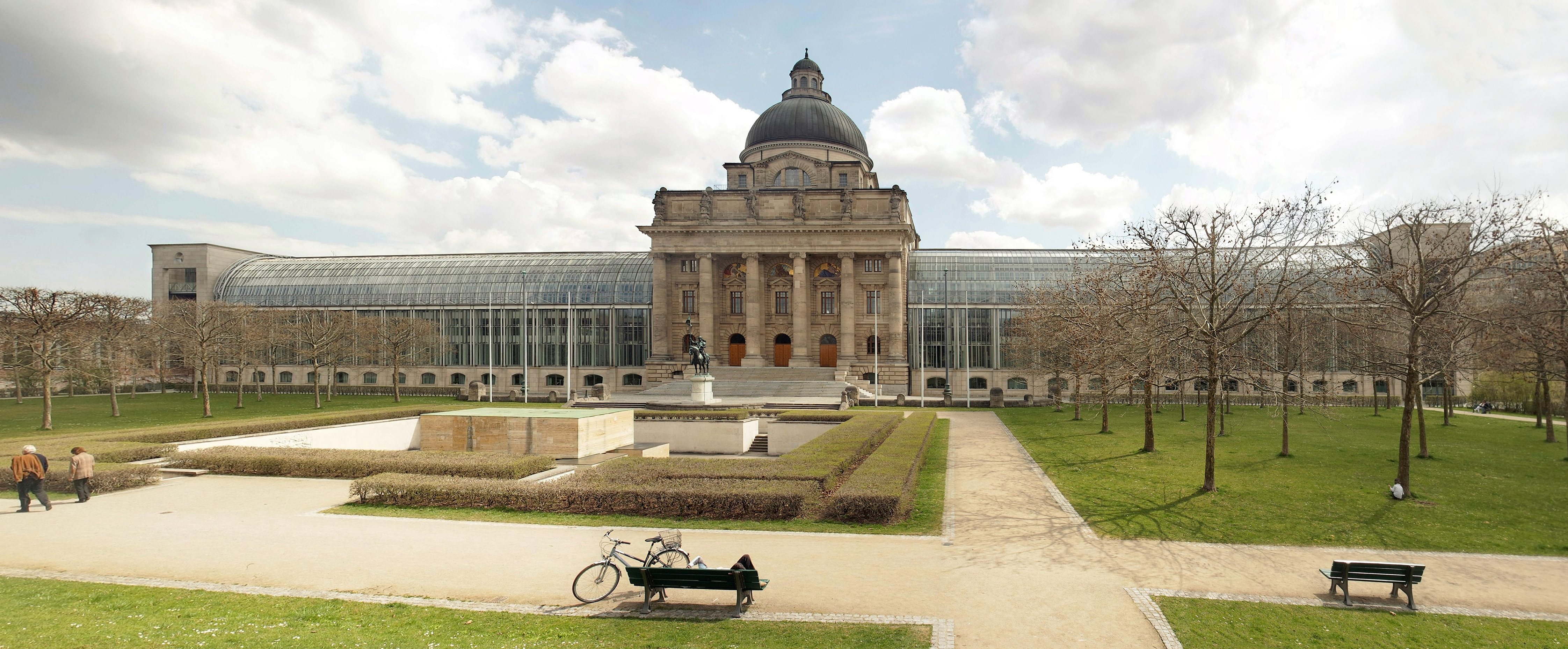 Bavarian state chancellery, minister president's office, Munich Technical information: A 4 x 1 segment panorama. Taken in portrait format with a Canon 40D and 17-55mm f/2.8L lens. Exif: 1/200, ISO 200, 17mm, f/11